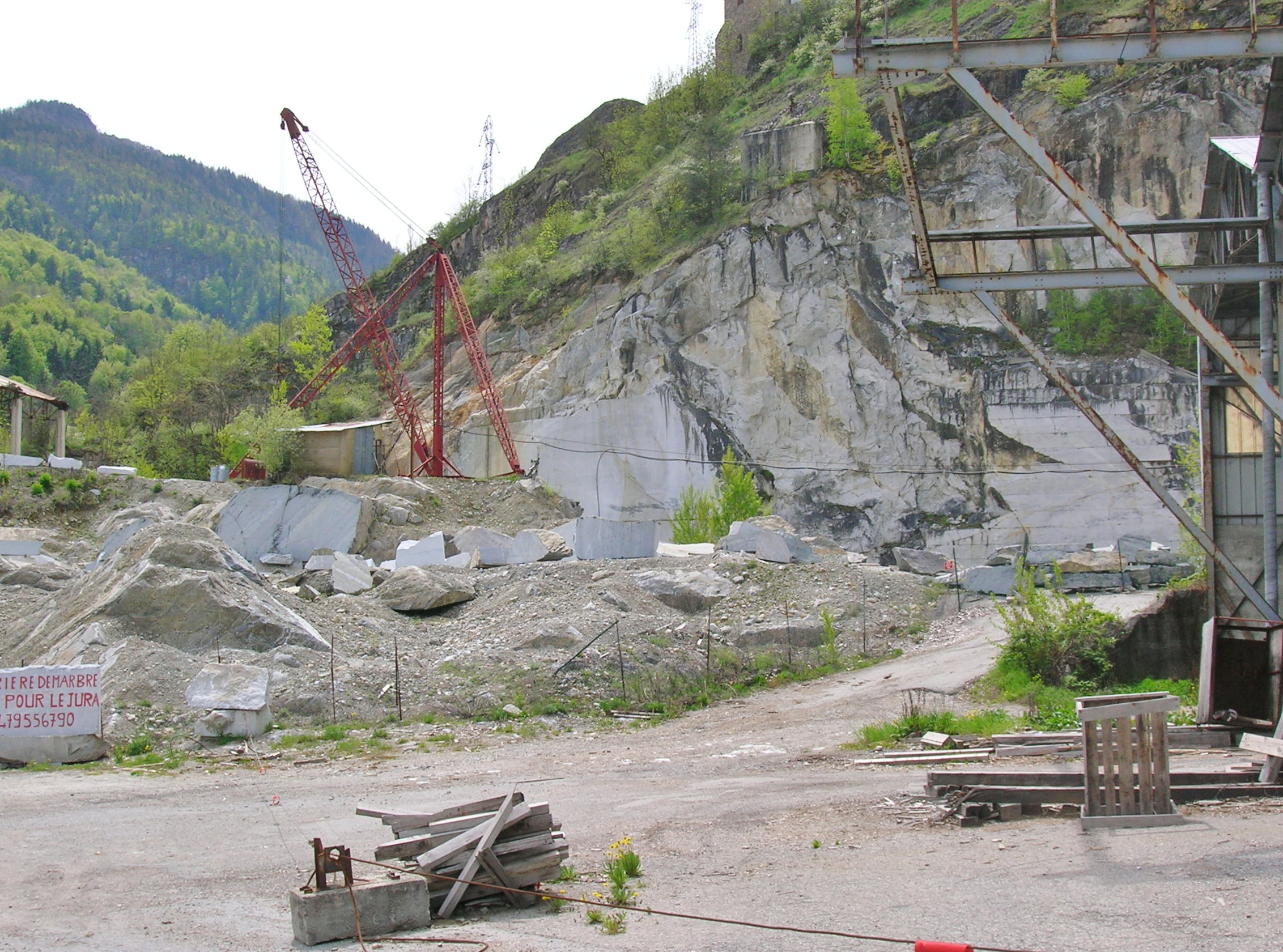 Marble quarrie of Villette (Aime commune), in the Tarentaise valley, in Savoie (French Alps).